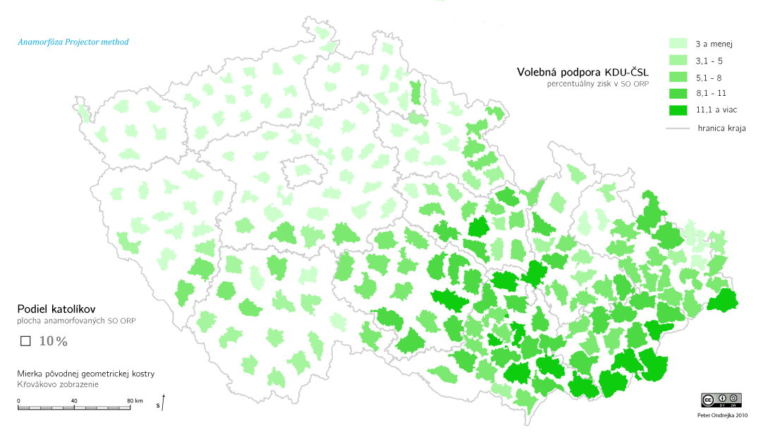 Czech parliamentary elections 2010. Combination of cartogram (percentage of Christian Catholics in districts) and choropleth map (support of the KDU-CSL party)